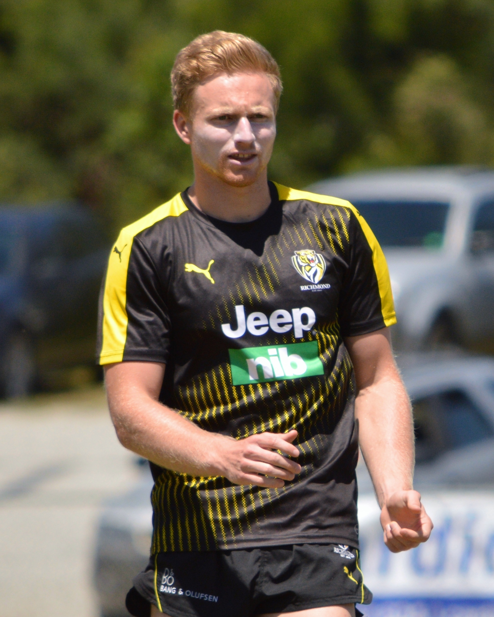 Nathan Drummond at Richmond's Family Day in January 2018